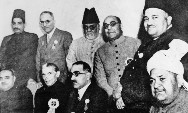 Muslim League Working Committee, Lucknow Session, October 1937. From BL Photo 429/(4), held and digitised by the British Library.